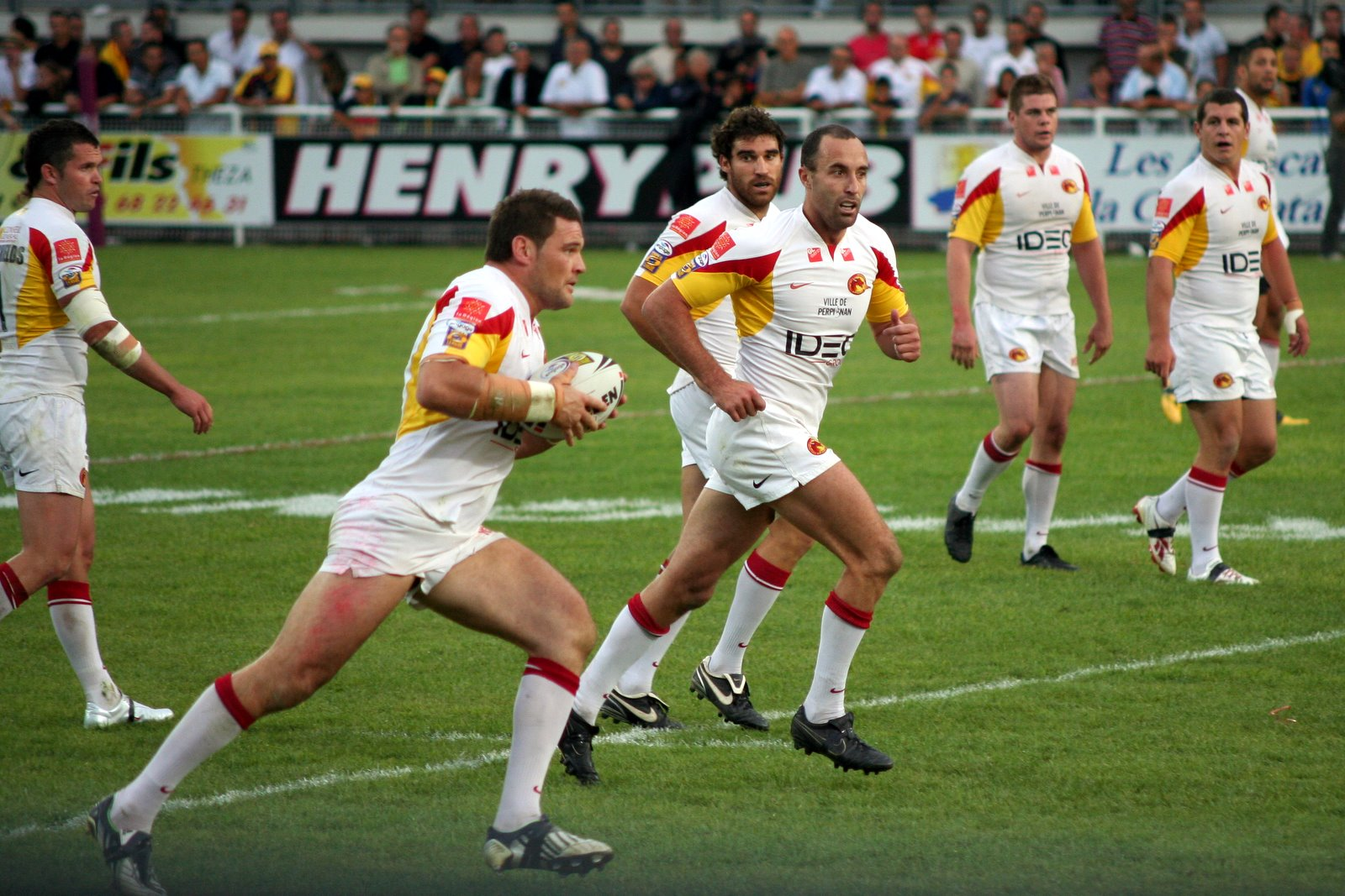 Photo of the Catalans Dragons team in the 2009 season of the European Super League